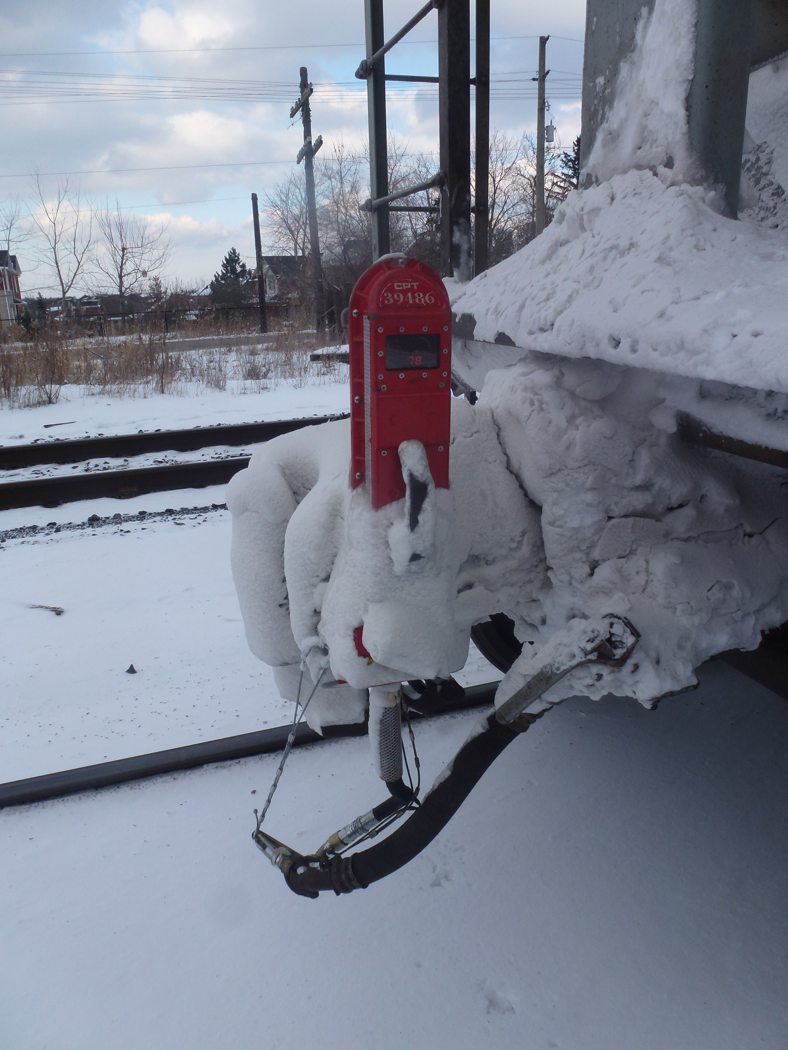 End-of-train device (ETD) on a long Canadian Pacific freight train on the passing siding at Bolton, Ontario. This one has been well frosted, but is still working, and even displays the brake line pressure on its own display.